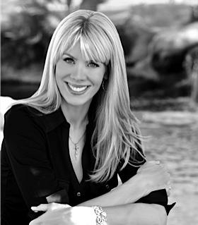 Teri Ann Linn fountain photo